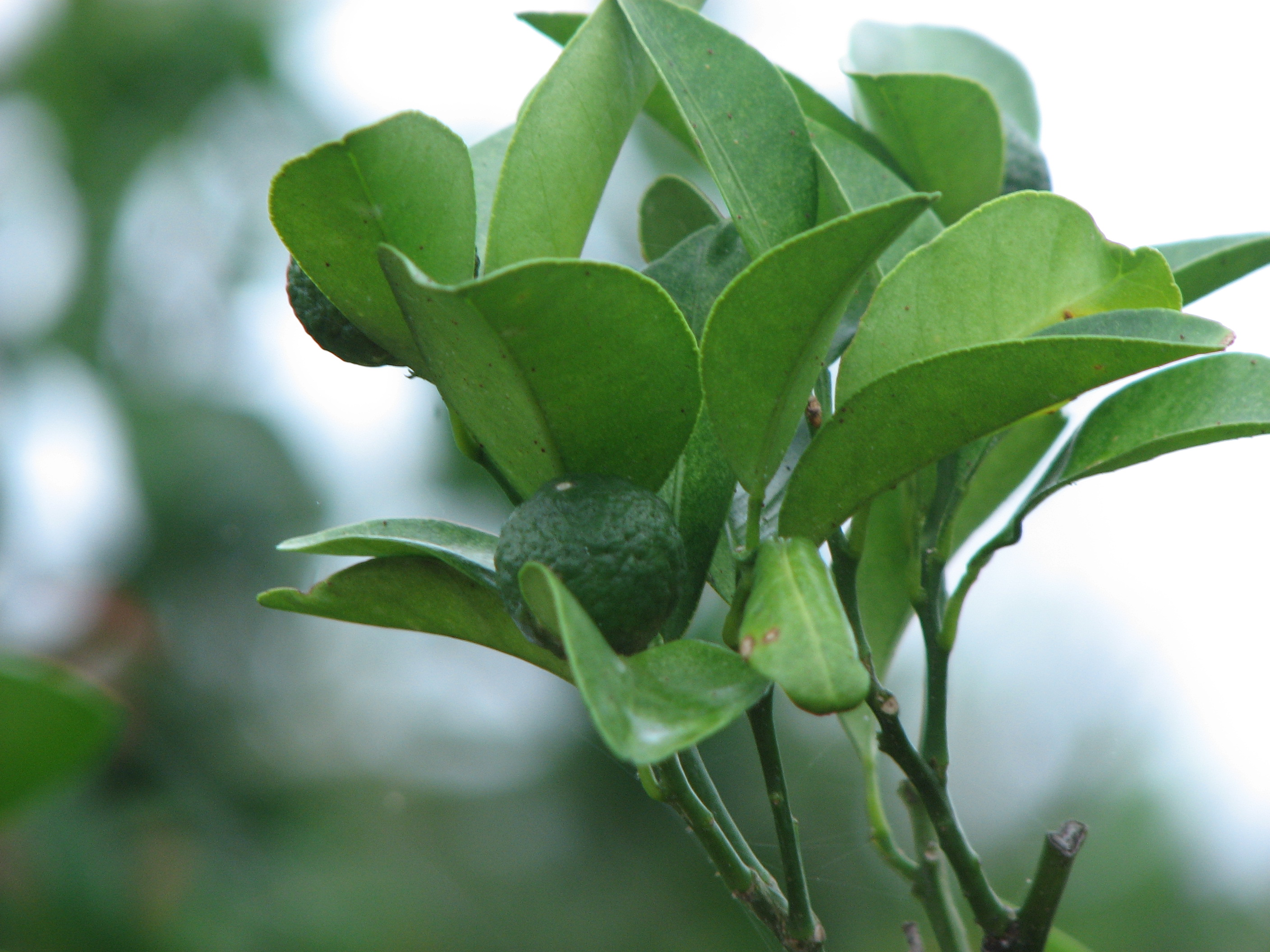 Citrus depressa at Iriomote is. Okinawa, Japan